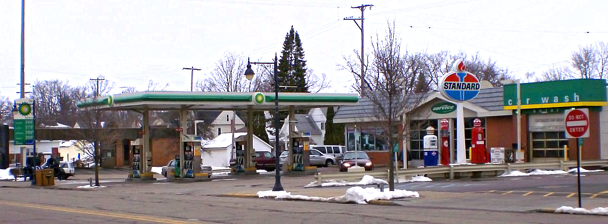 BP station with Standard Indiana sign in Durand, Michigan: 220 N. Saginaw St. at southeast corner with E. Genesee St.; photographed approximately northeast